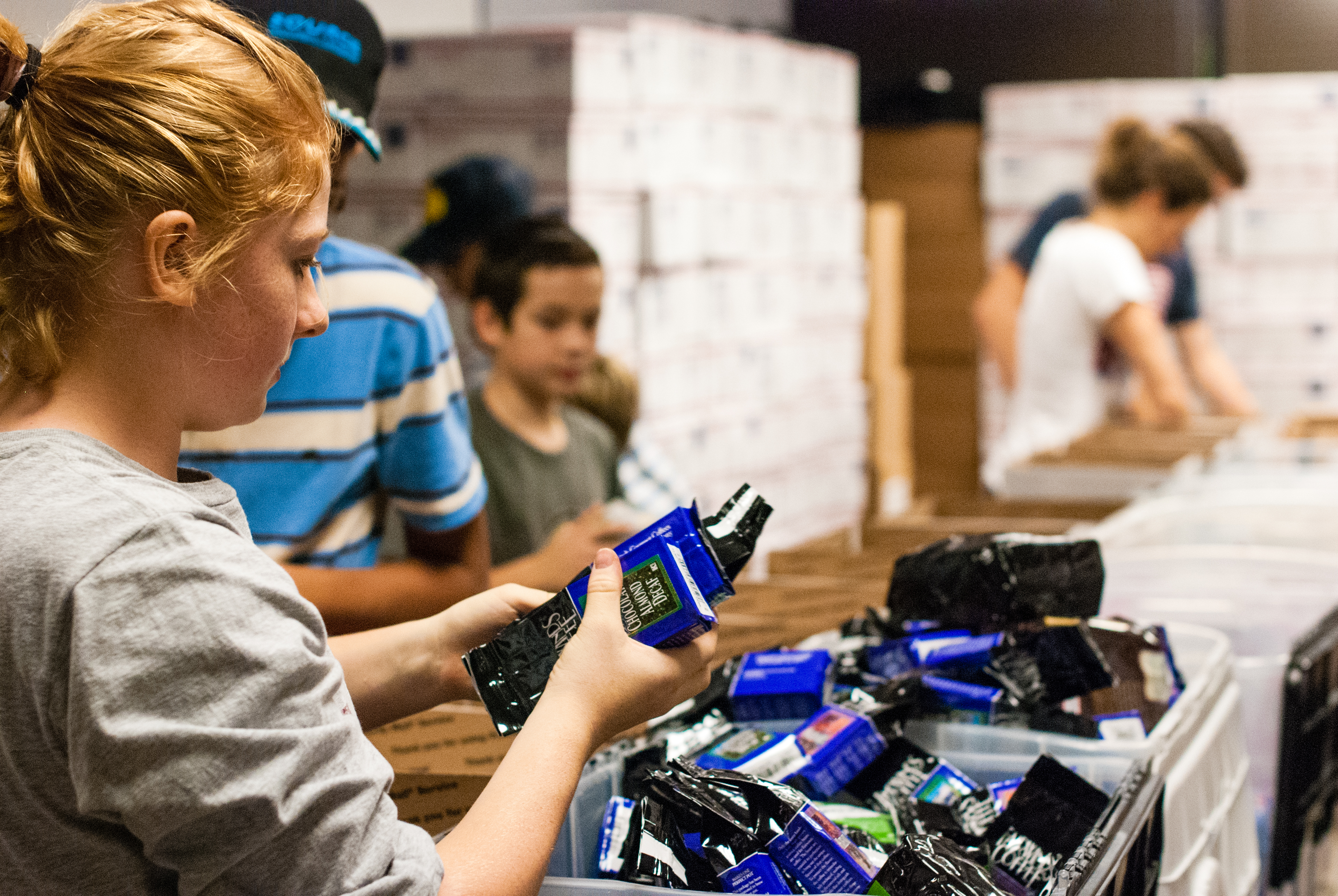 Volunteers1